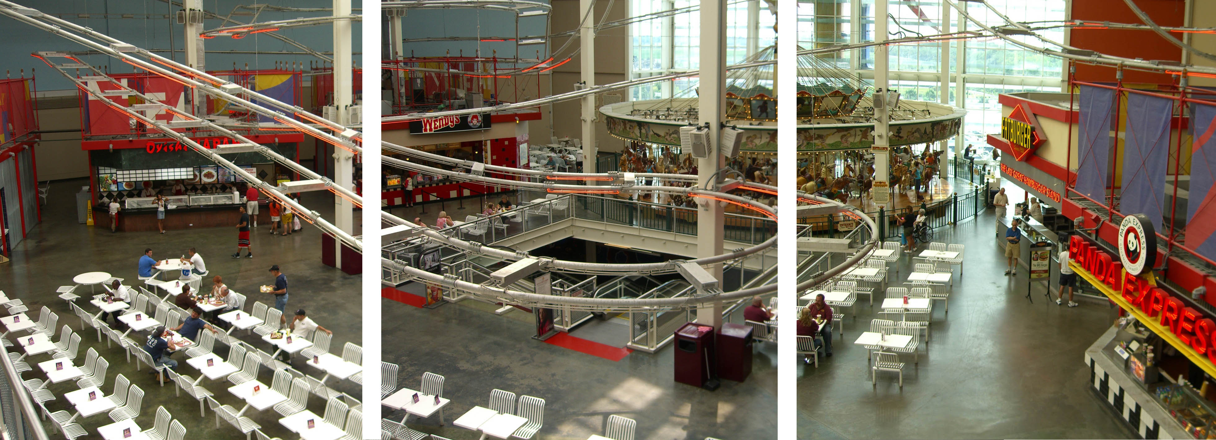 The food court of the Palisades Center Mall in West Nyack.